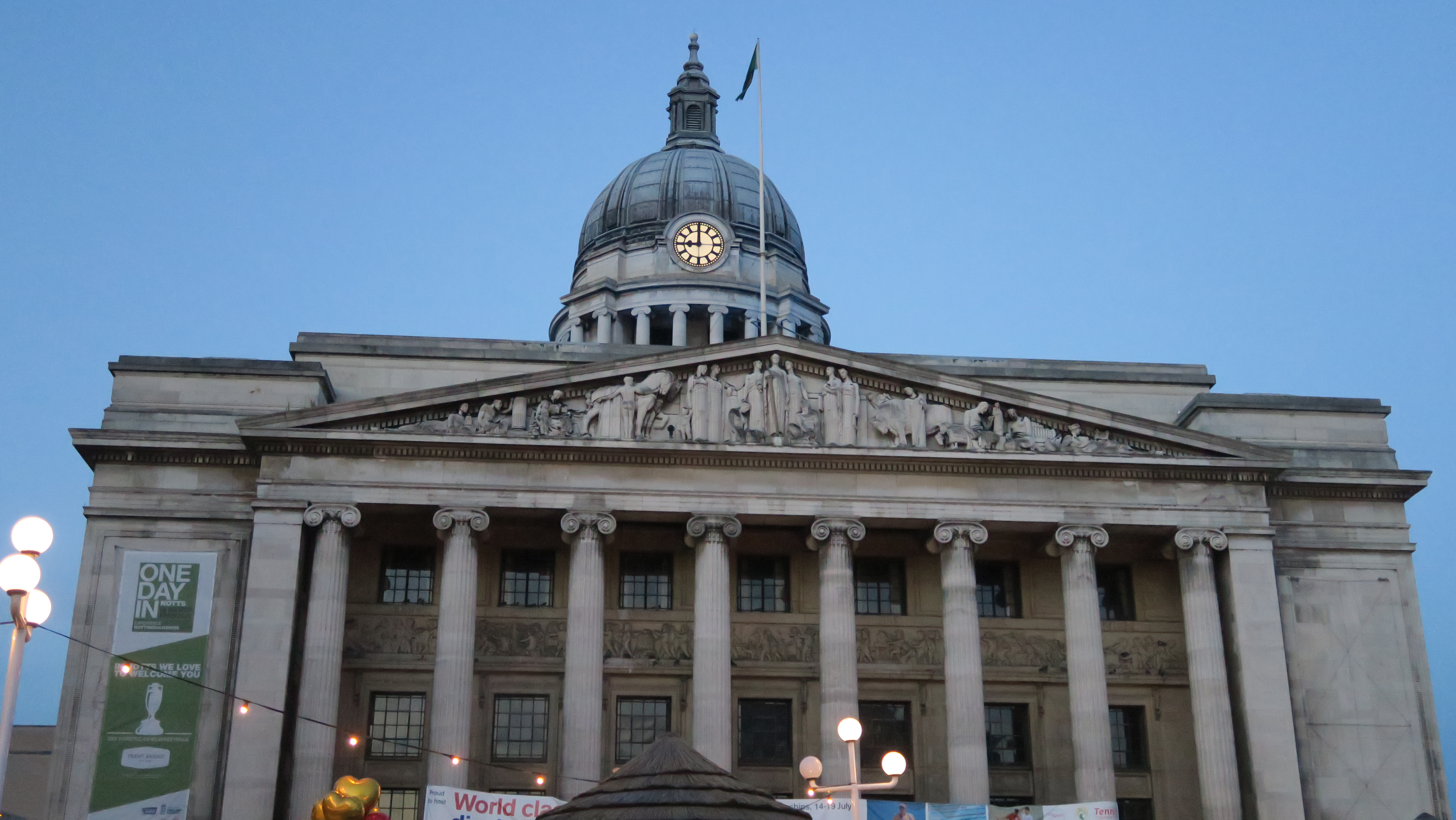 Nottingham Council House, UK